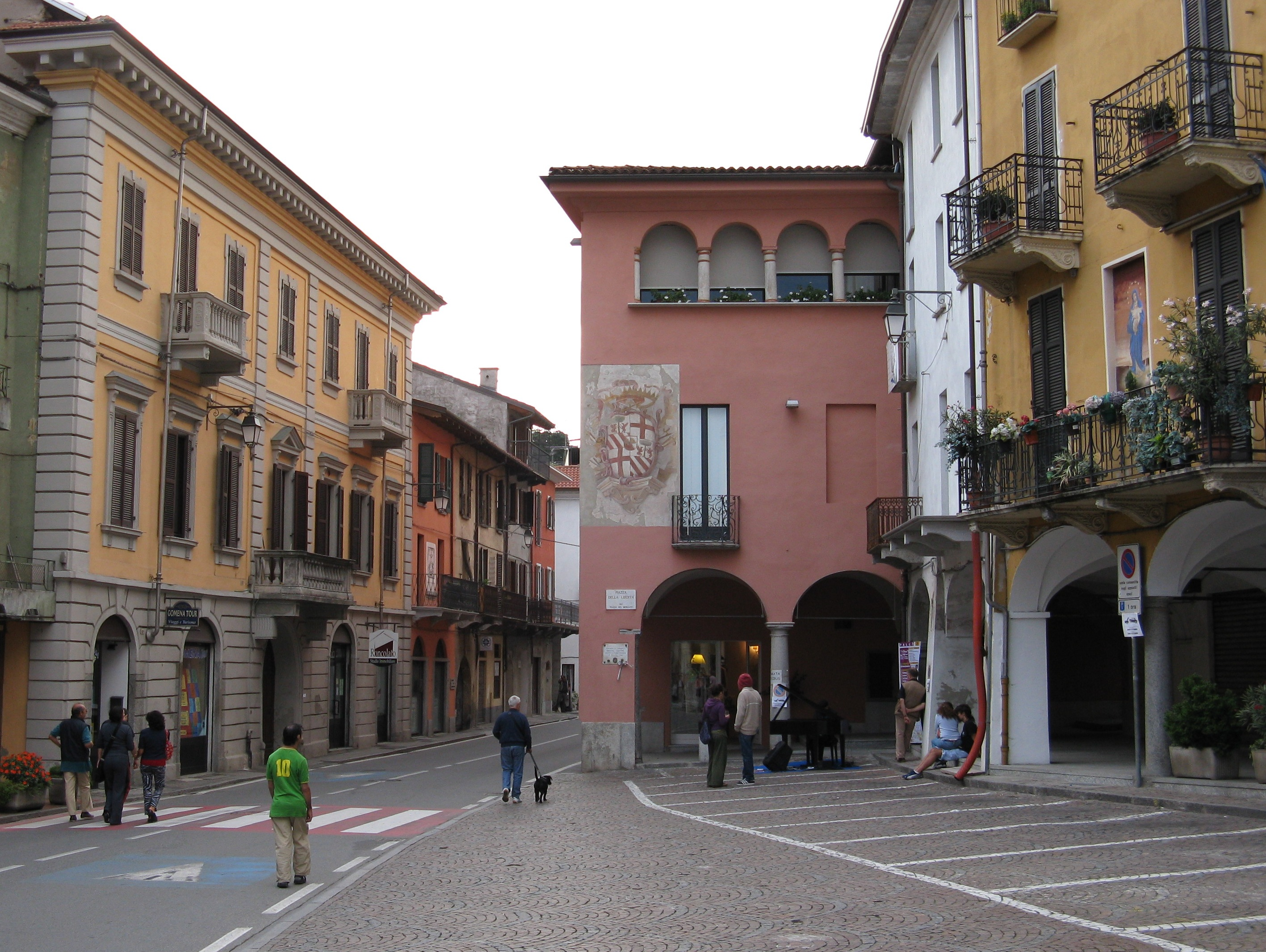 La piazza principale di Romagnano